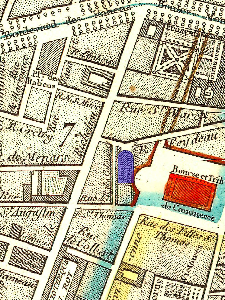 Detail from an 1814 map of Paris, showing the location of the Salle Feydeau in blue